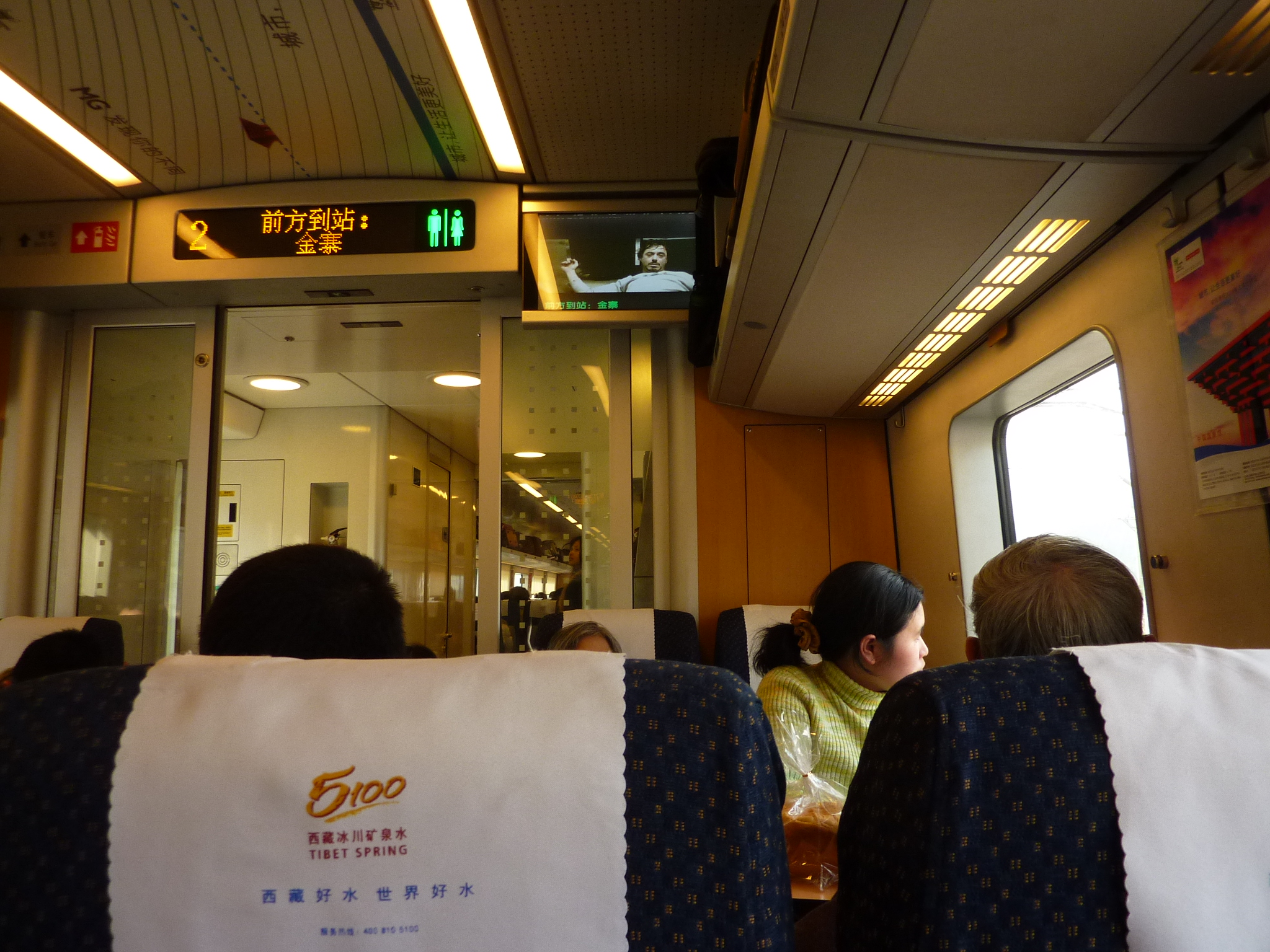 Inside a car of a D-series train approaching the Jinzhai Railway Station on the Hefei-Wuhan railway.